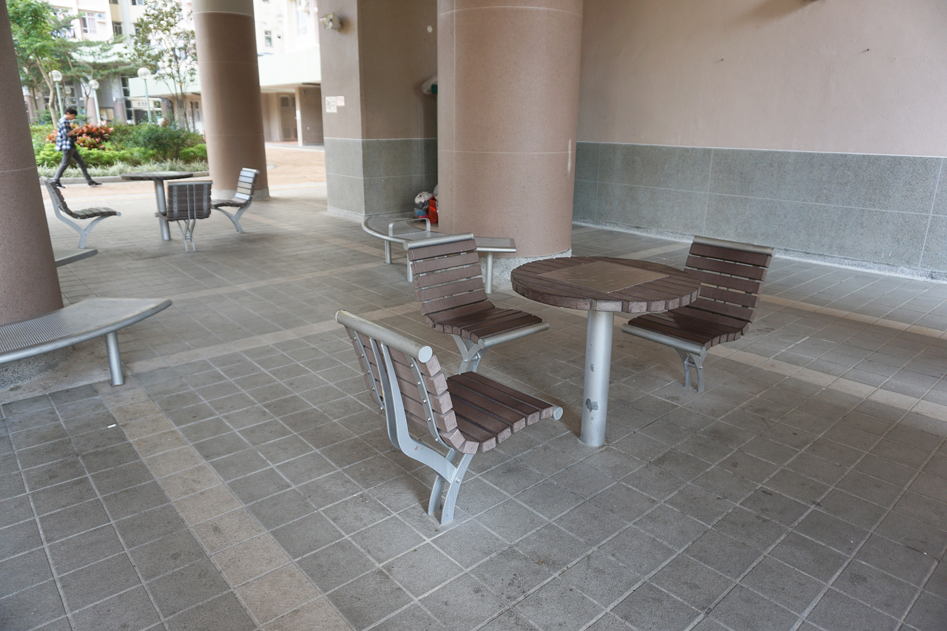 Yan On Estate in Heng On, Hong Kong.